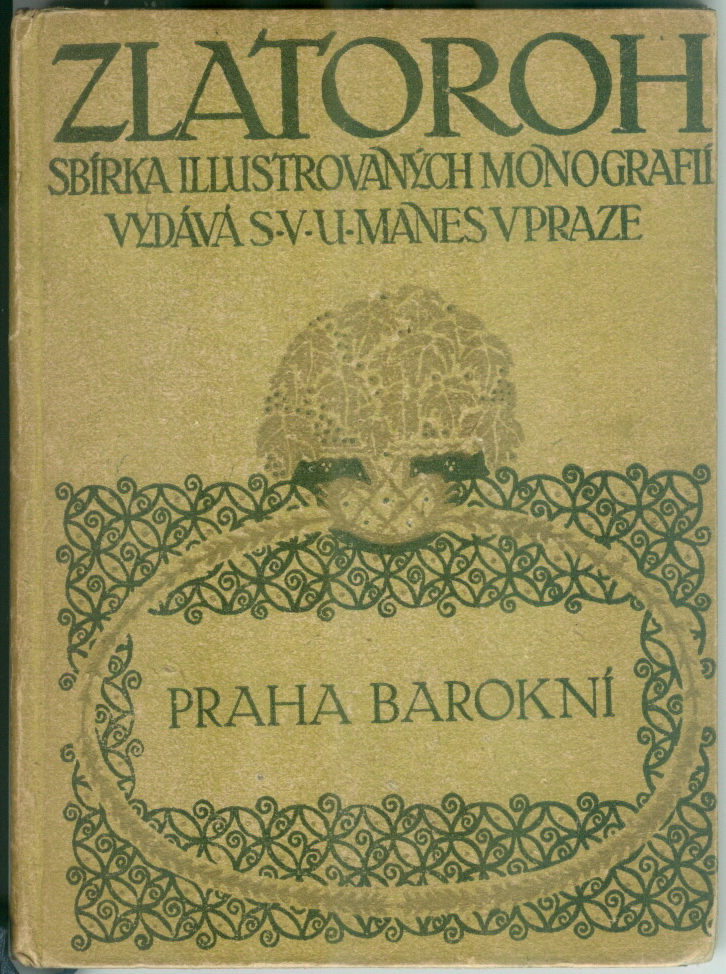 Zlatoroh - typical book cover